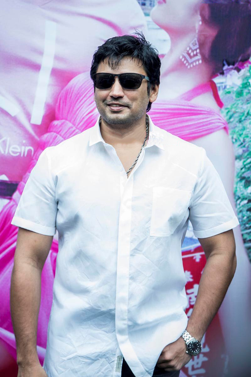 Prashanth at Saahasam Audio Launch